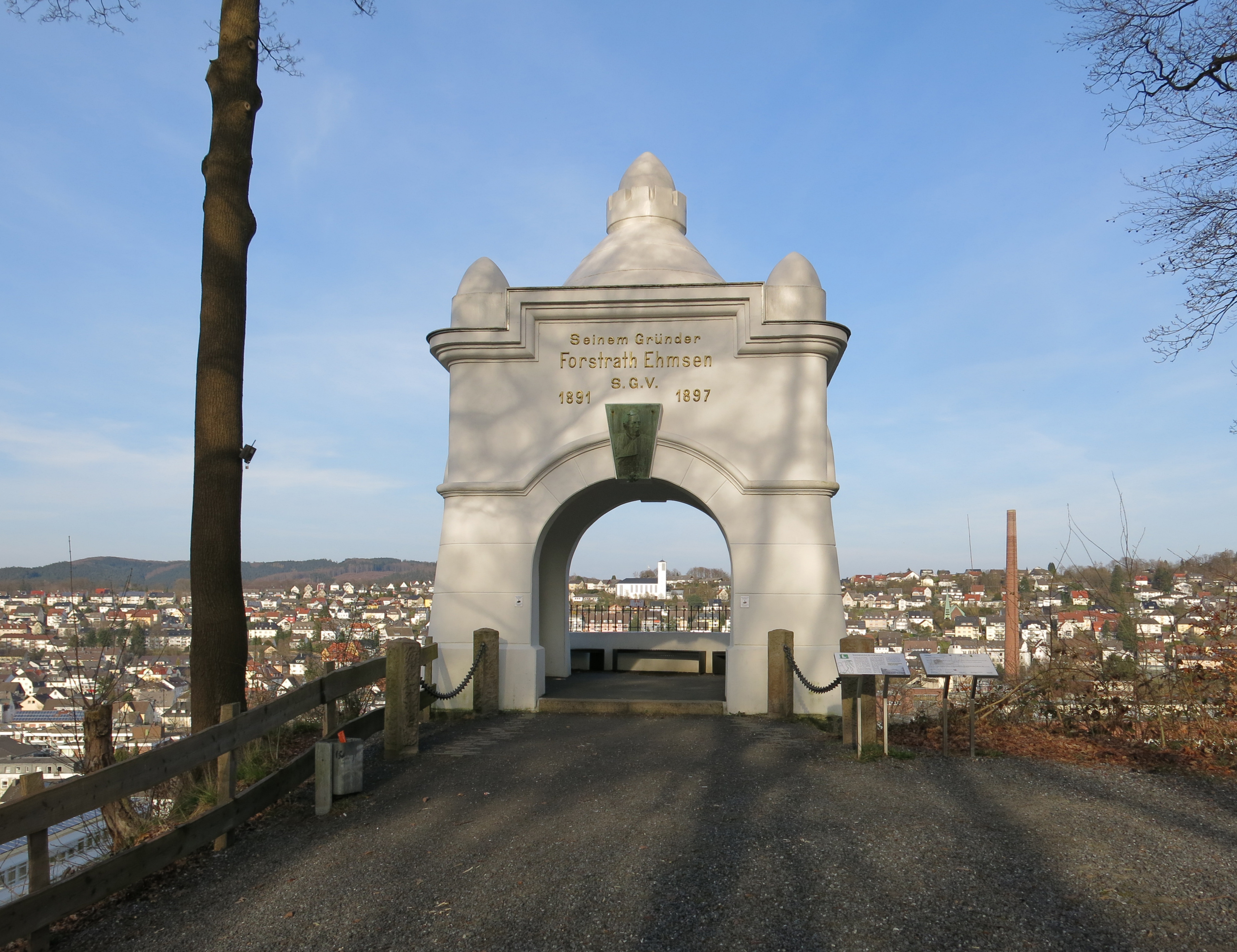 Ehmsendenkmal in ArnsbergThis is a photograph of an architectural monument., no. DL 356